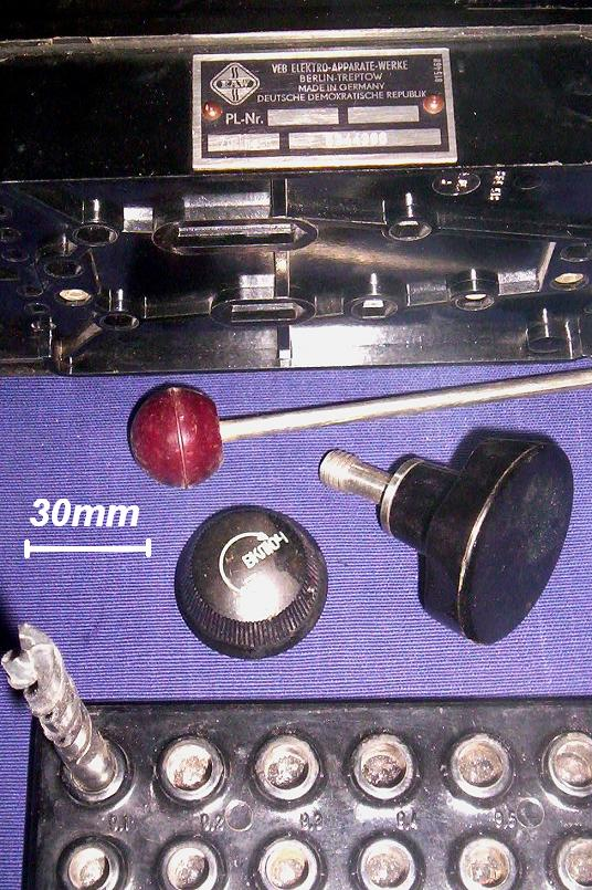 Typical Parts made from Bakelite: case, knobs, drill stand